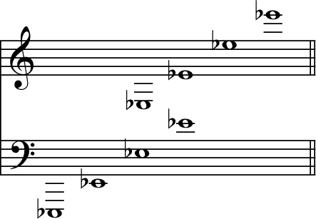 Notes, E Flat